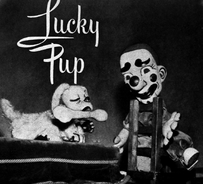 Photo of Lucky Pup and Jolo the clown from the children's television show Foodini the Great. The program was first known as Lucky Pup.